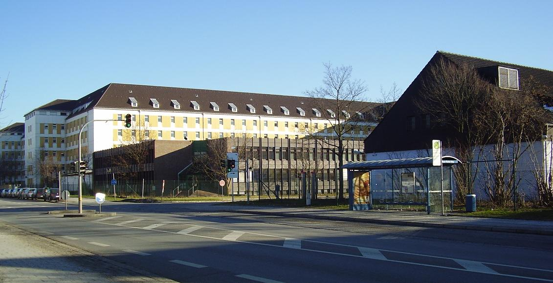 Bundeswehr Medical Academy in the former Warner Kaserne in Munich, today Ernst-von-Bergmann-Kaserne